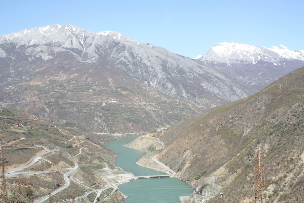 View from Fierza dam in northern Albania into direction north-west over the end of Lake Koman and Fierza village to the mountains of Maja e Mërturit (1.757 m) and Maja e Shtyllës (2.095 m)